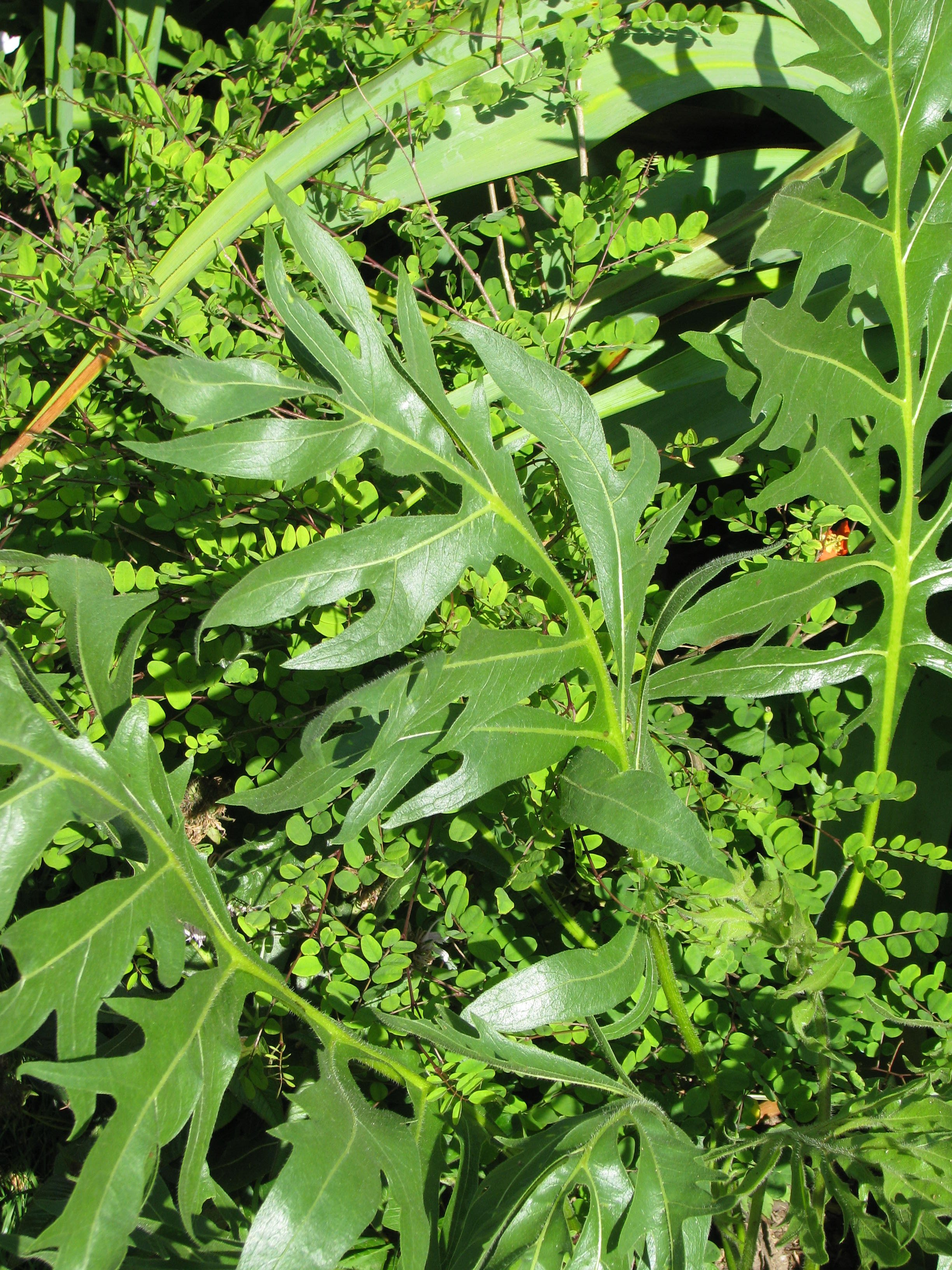 The flowers are nice enough (basically it's a kind of sunflower) but it's the foliage you really grow this plant for. Those leaves are 2ft long.